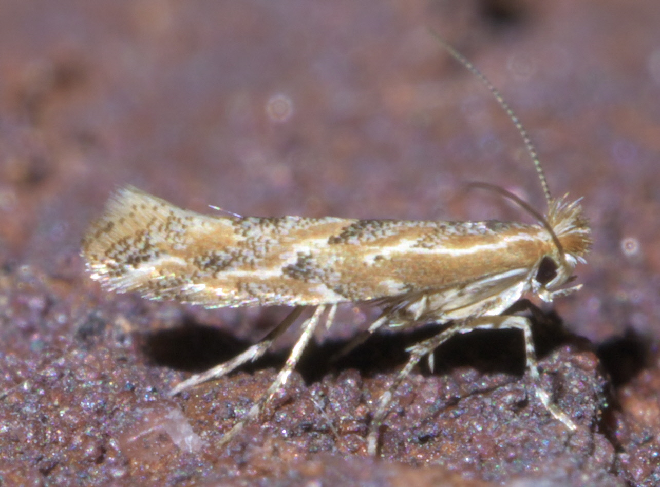 Cremastobombycia, Family: Leaf Blotch Miner Moths, Size: 3.6 mm, ID Confidence: 98